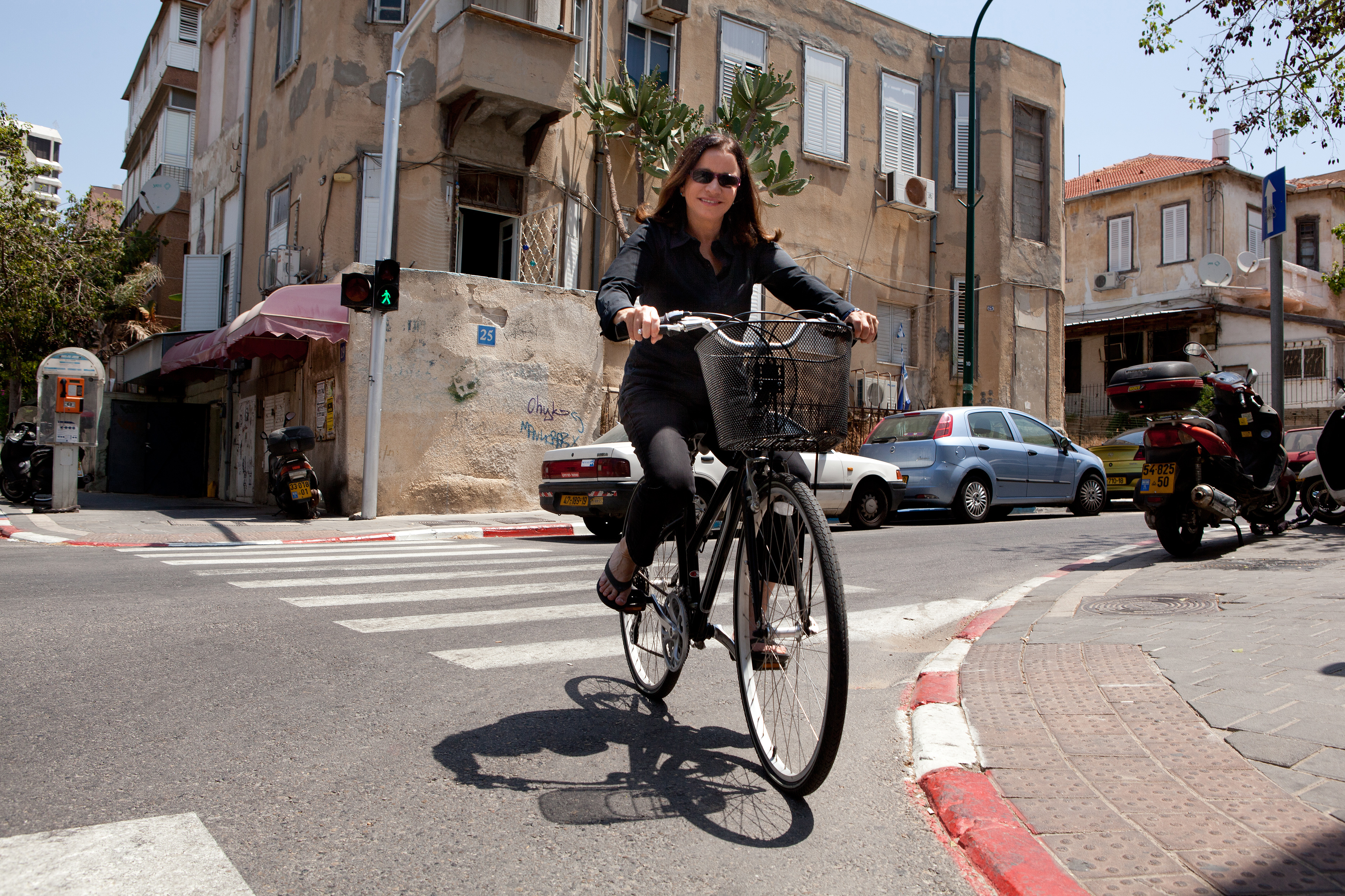 Shelly Yachimovich (Hebrew: שלי יחימוביץ׳, born 28 March 1960) is an Israeli journalist and politician. A member of the Knesset since 2006, she is currently leader of the Israeli Labor Party.